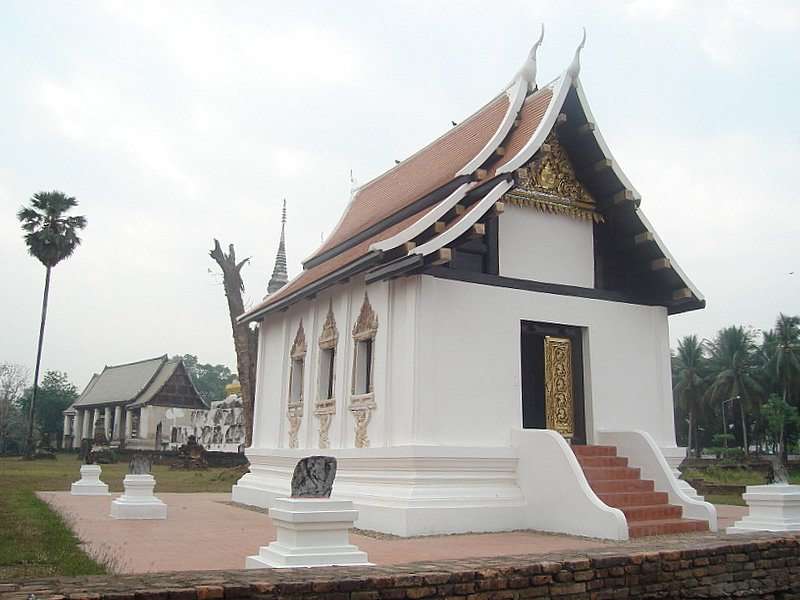 picture of Wat Phra Fang temple Location: Wat Phra Fang (Wat Phrafangsawangkabureemuneenat) Ban Phra Fang, Pha Juk subdistrict, Mueang Uttaradit, Uttaradit Province, Thailand.